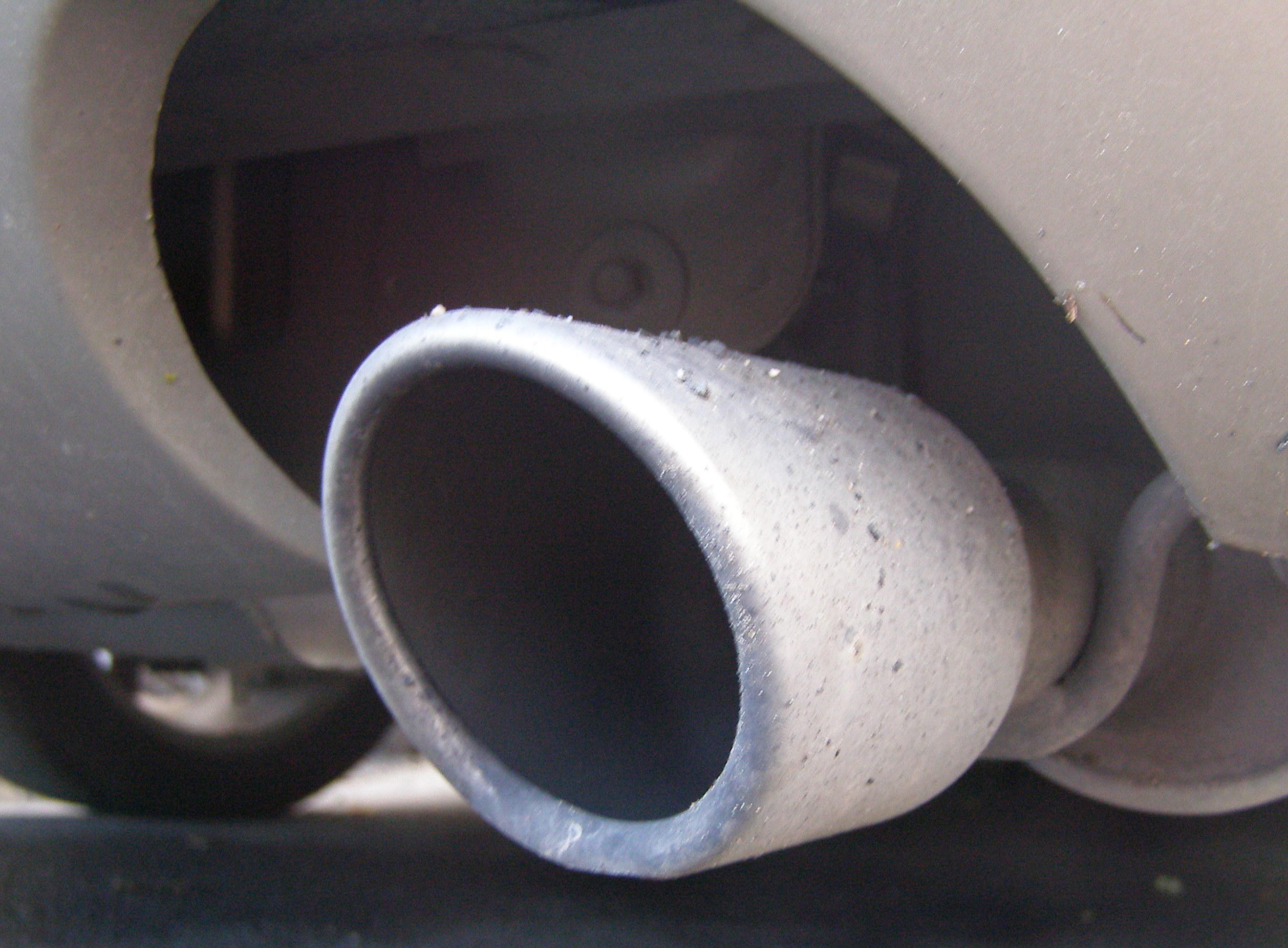 i took this photo and release all rights